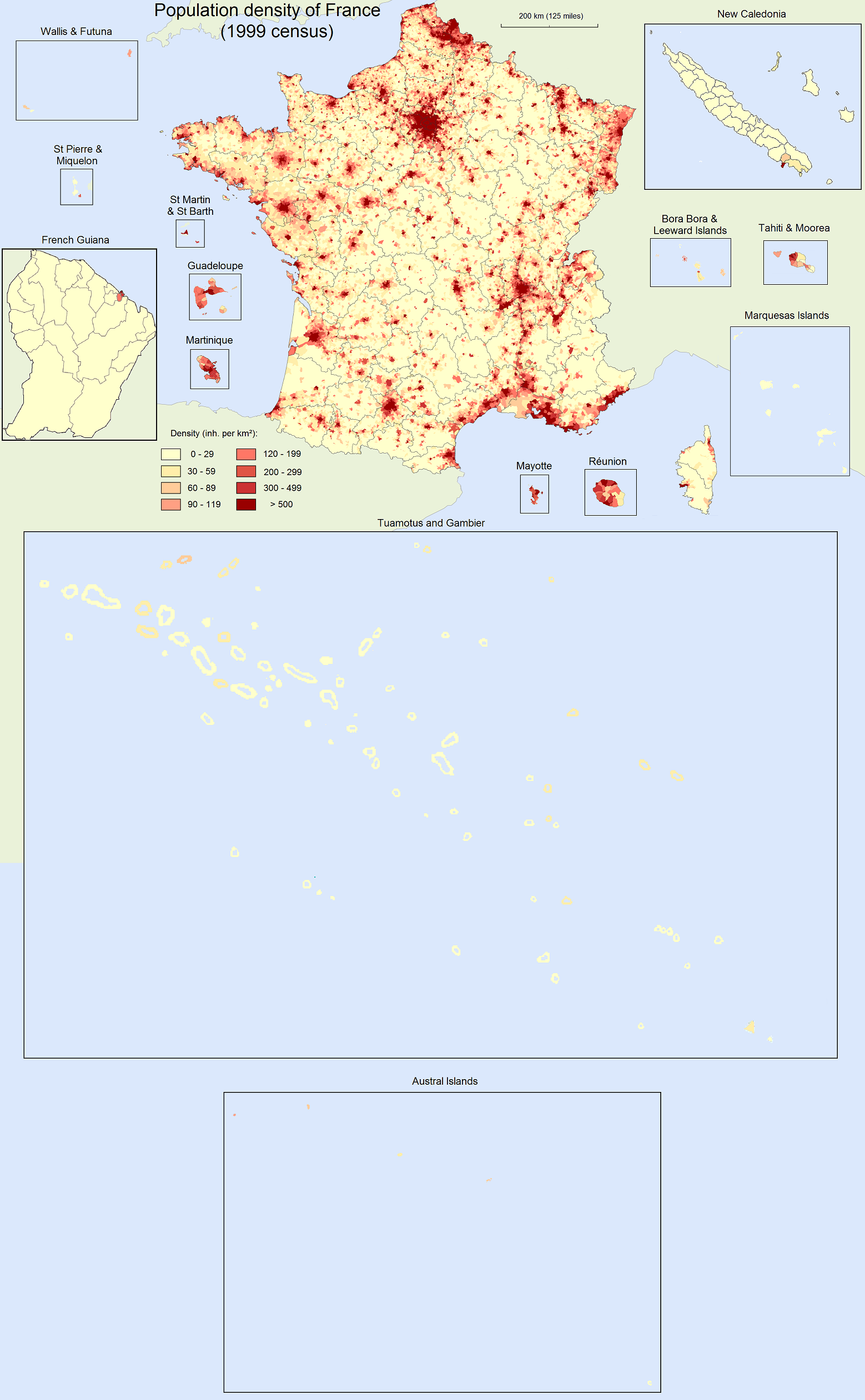 Population density map of France, made by myself.